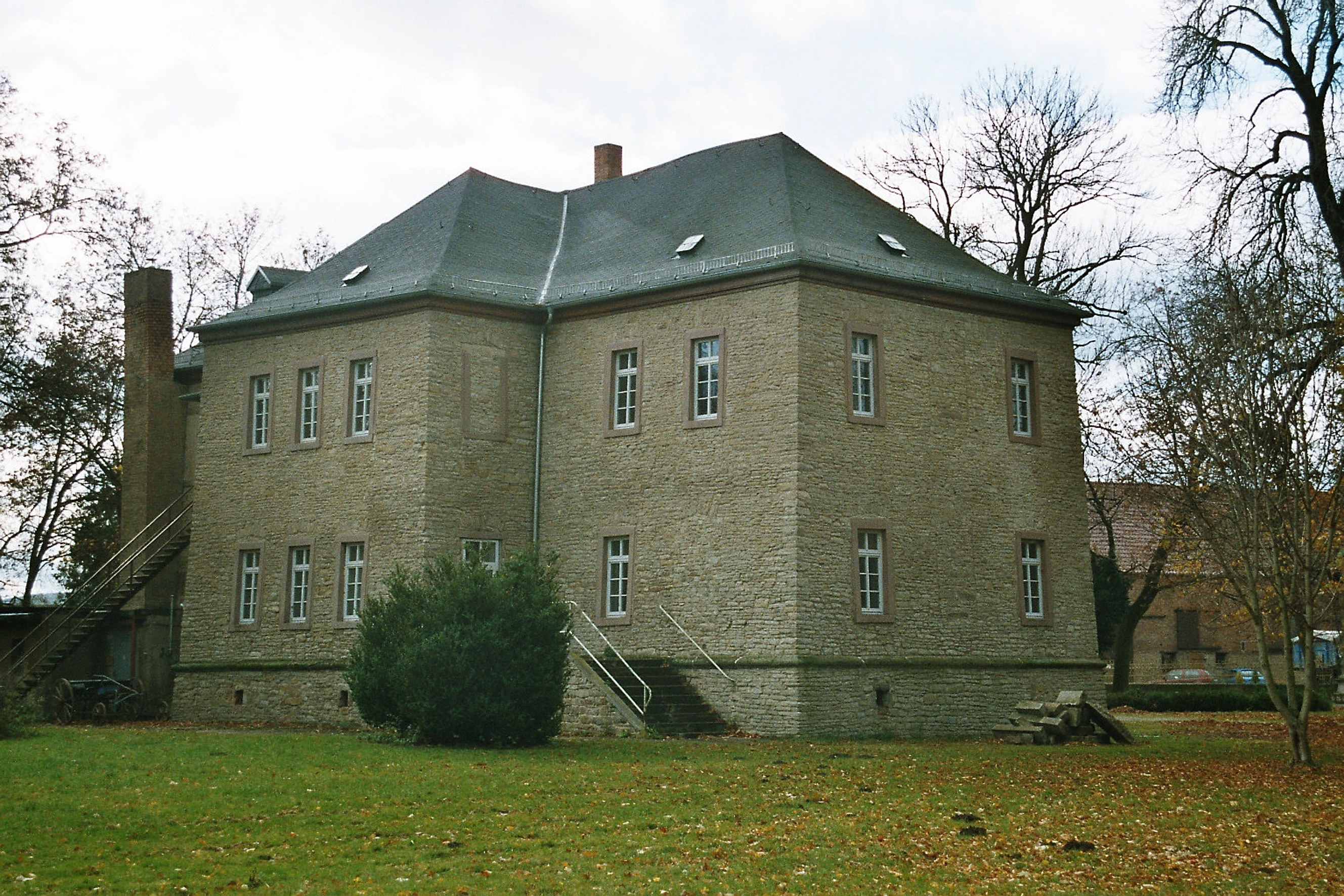 Kalbsrieth (Thüringen), the castle